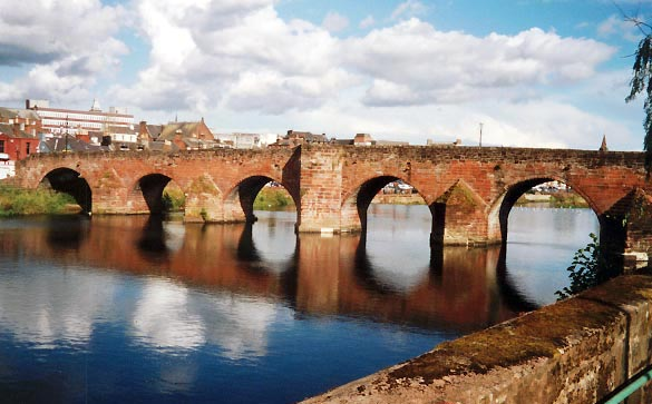 Devorgilla Bridge (c. 15th Century)- Dumfries. This was taken on a rare bright, sunny day, from the old Maxwelltown side of the River Nith.